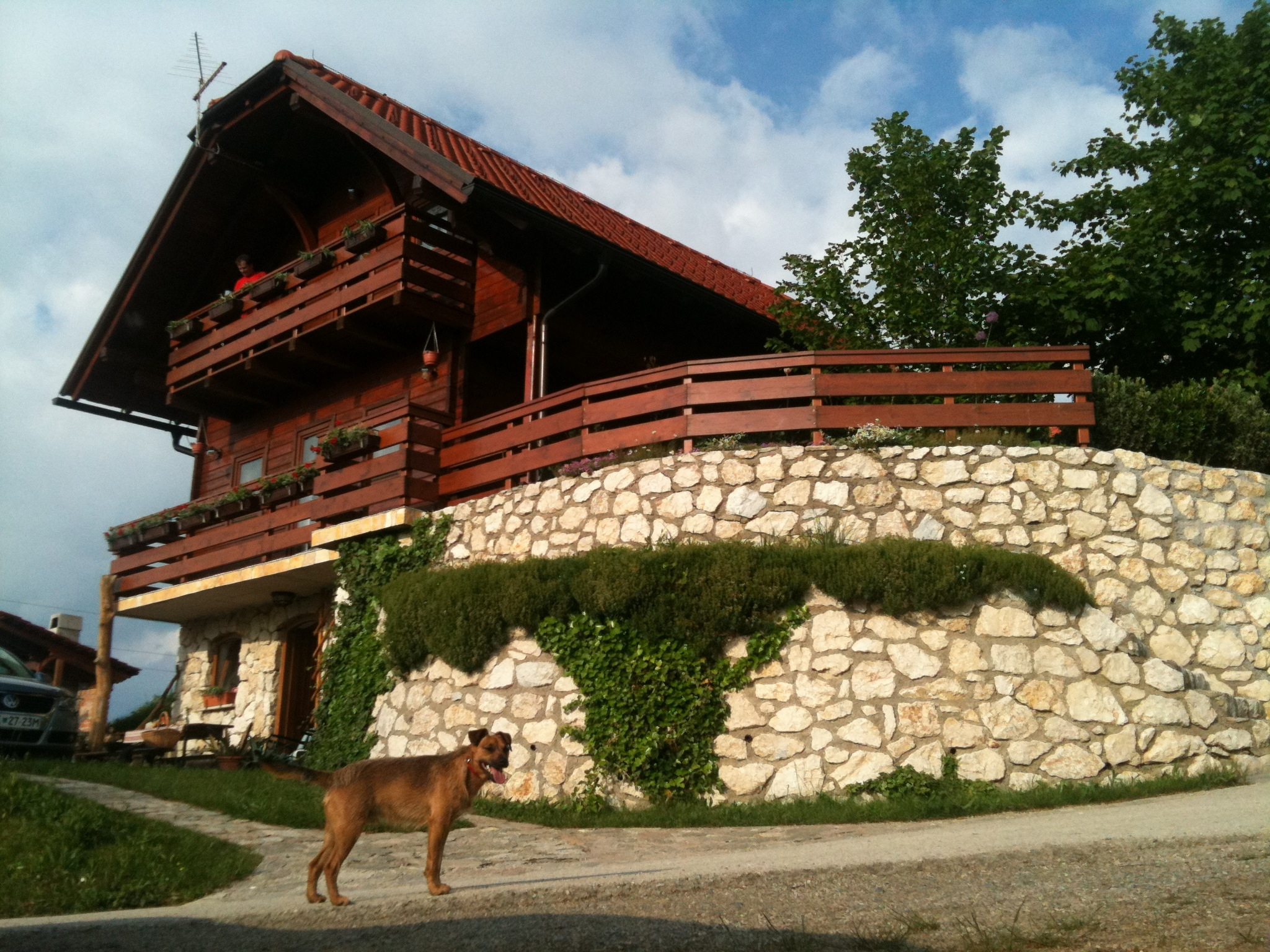 A lovely house in a small pueblito